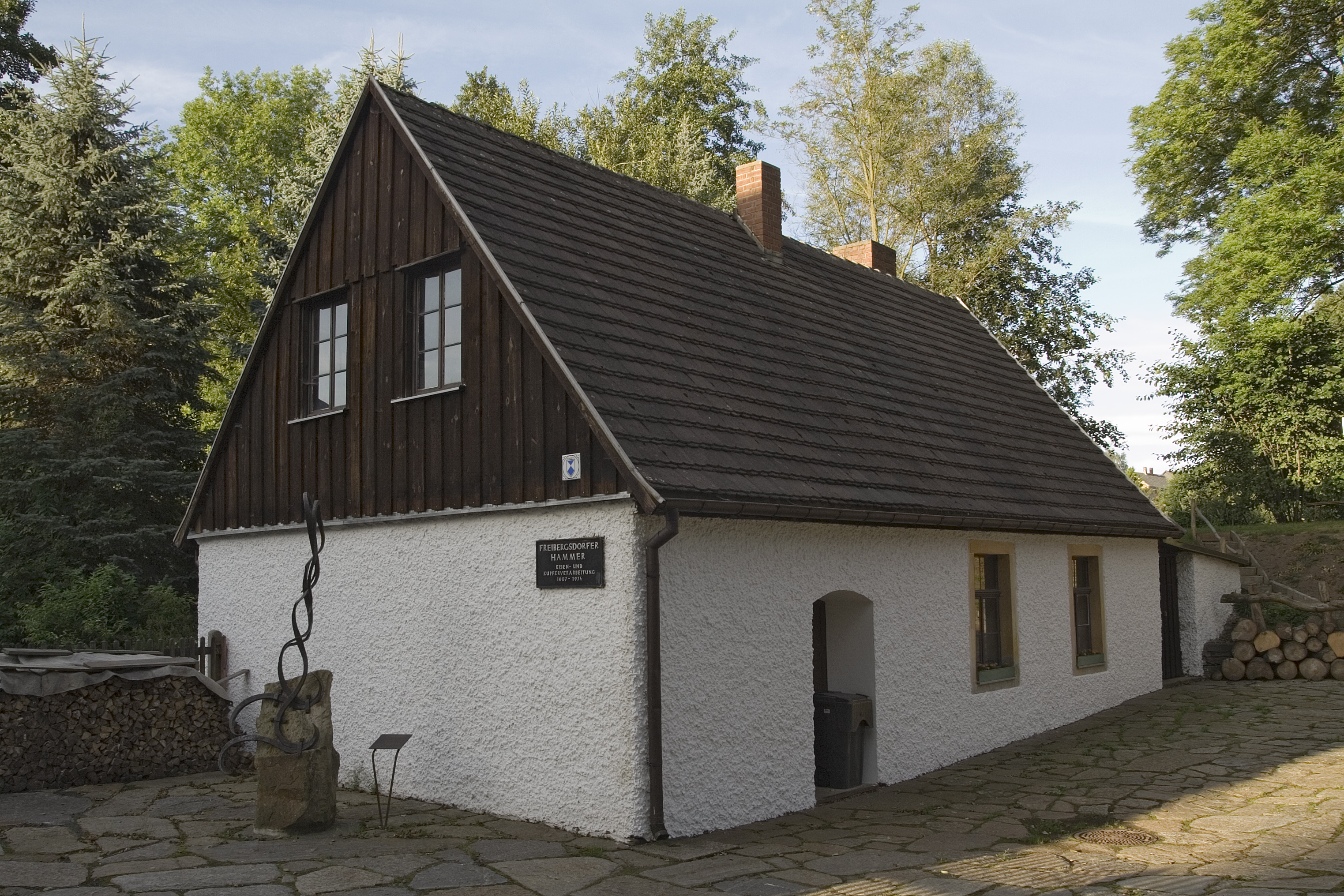 Freibergsdorfer Hammer, technical monument in Freiberg, Saxony